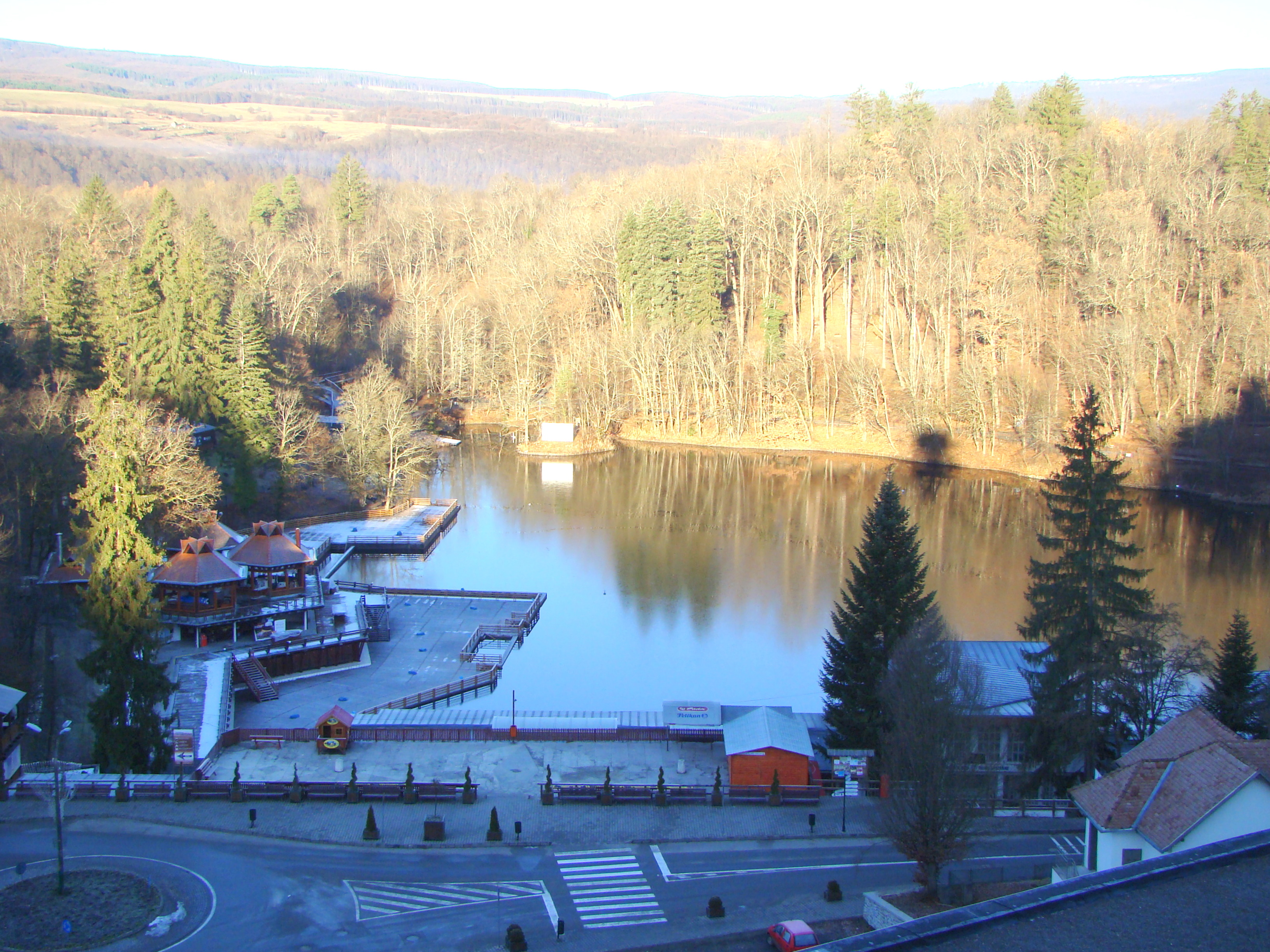 Lake Ursu Natural Reserve